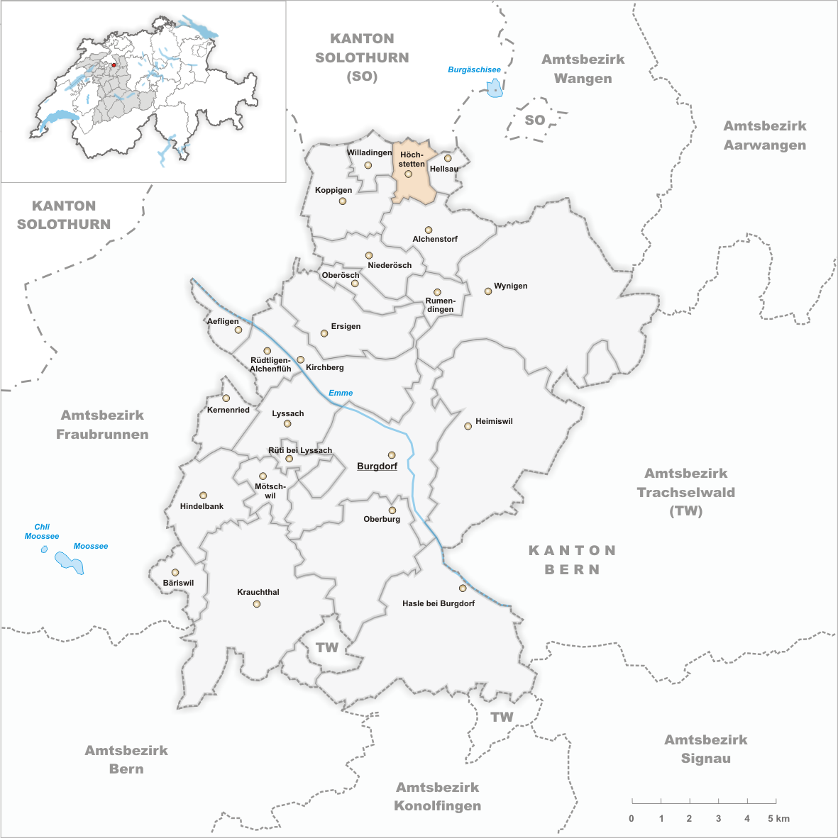 Municipality Höchstetten